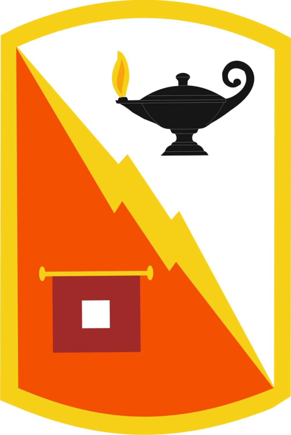 15th Signal Brigade Shoulder Sleeve Insignia